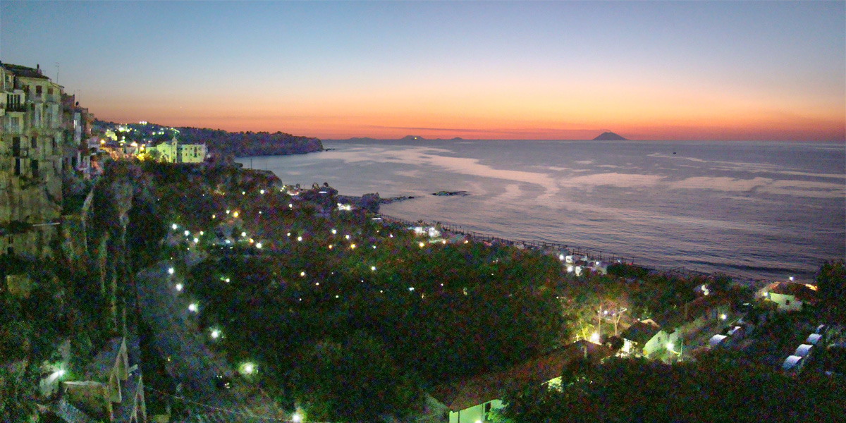 Tropea, Calabria, Italy. At the horizon, the silhouette of Stromboli and the Aeolian Islands.